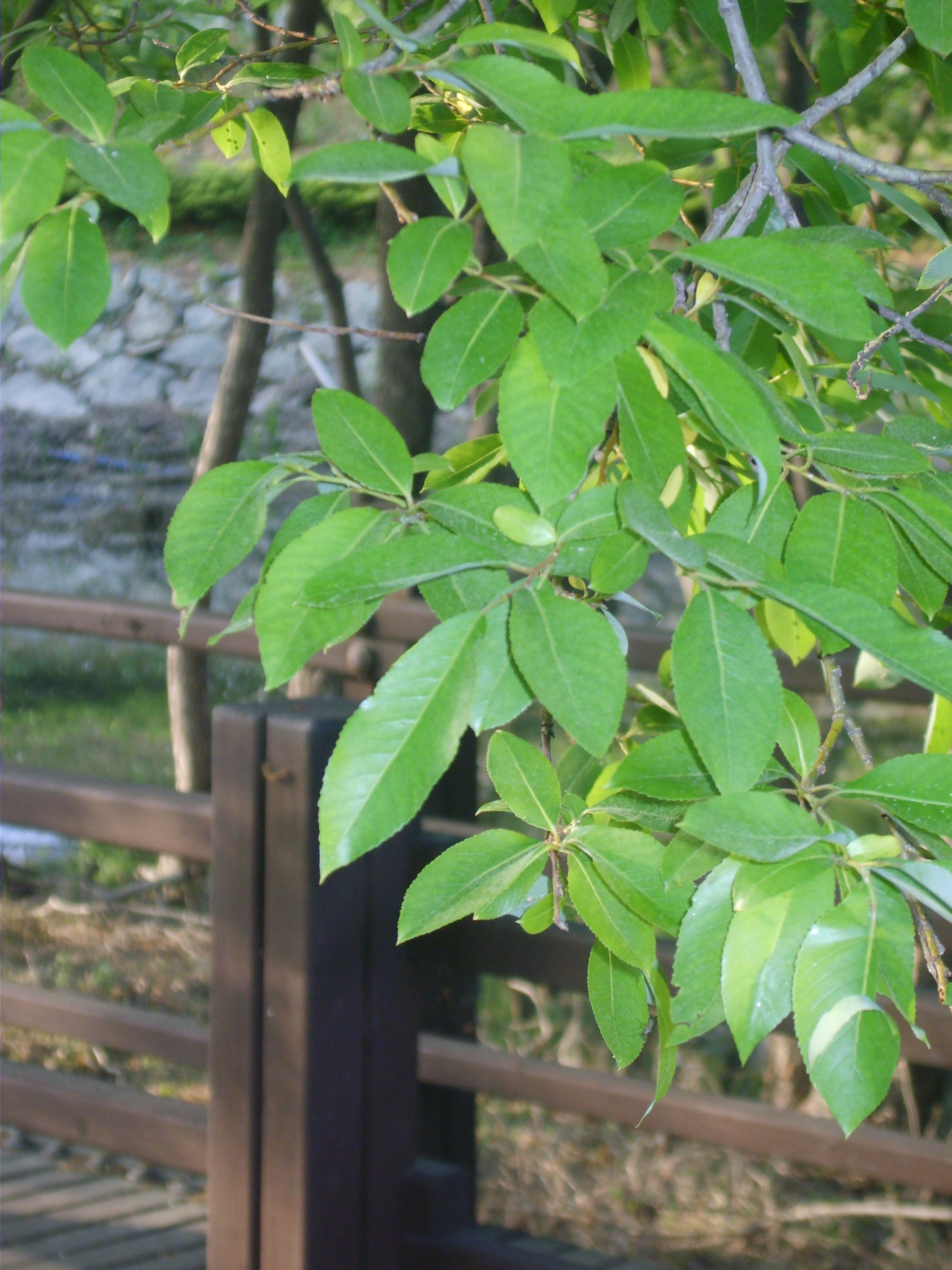 Salix chaenomeloides's leaves in Hampyung, Korea. 함평 자연생태공원에 사는 왕버들.